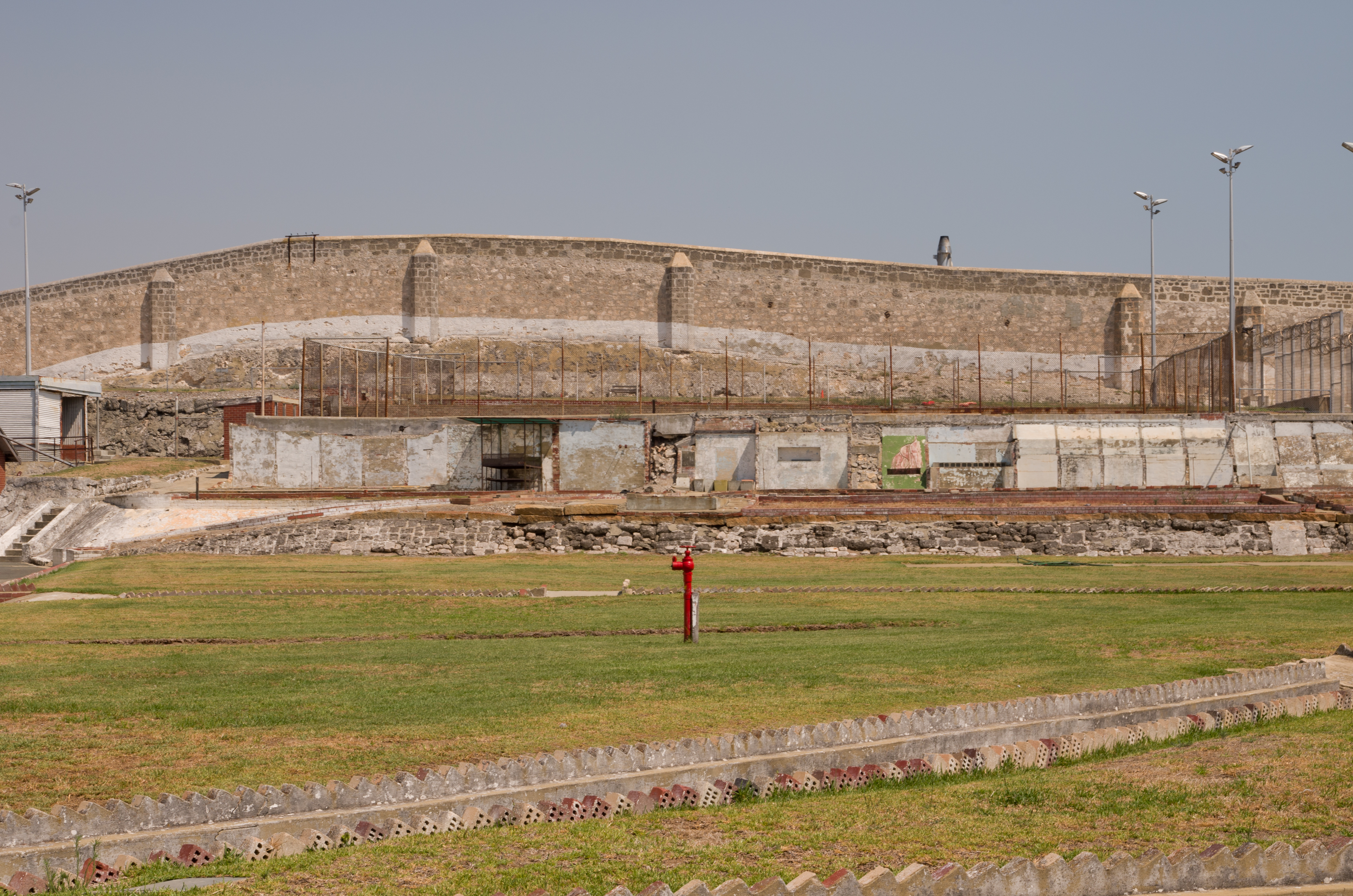 Fremantle Prison wall showing hill profile before it was evacuated to provide material to construct the prison